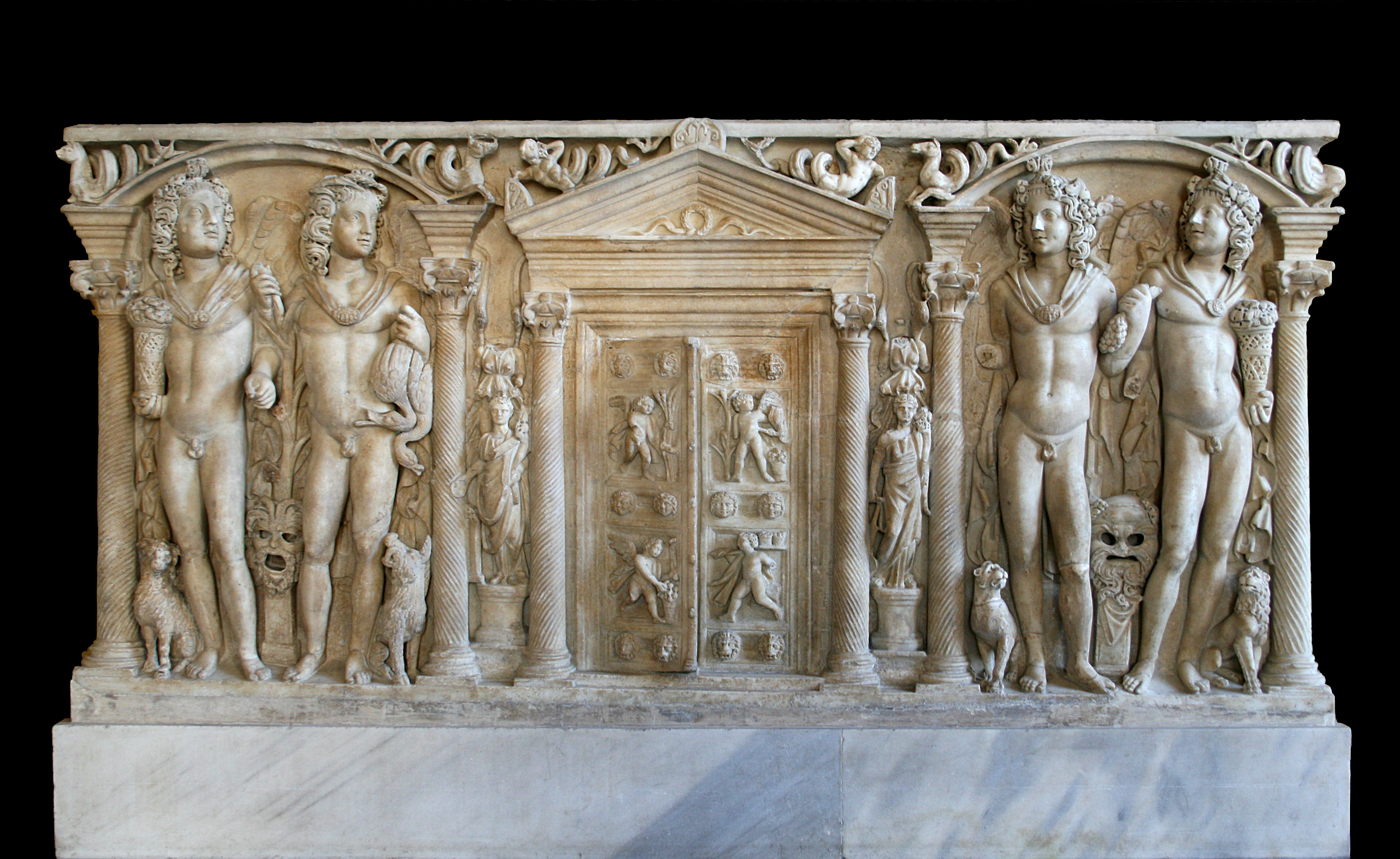 Front panel of a sarcophagus representing the four seasons. Marble, Roman artwork, middle of the 3rd century CE.